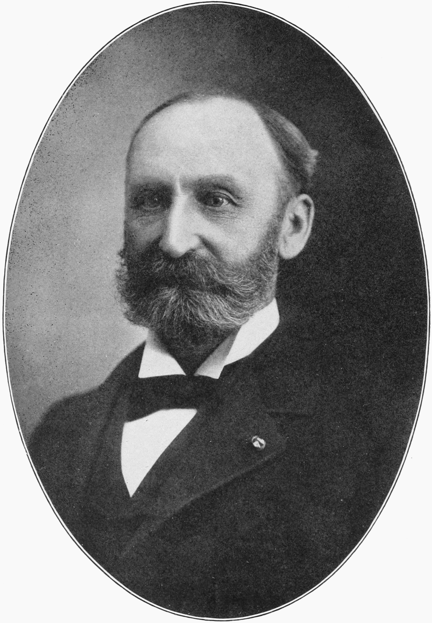 A lieutenant-Governor of Ohio and Civil War Soldier named Rees G. Richards